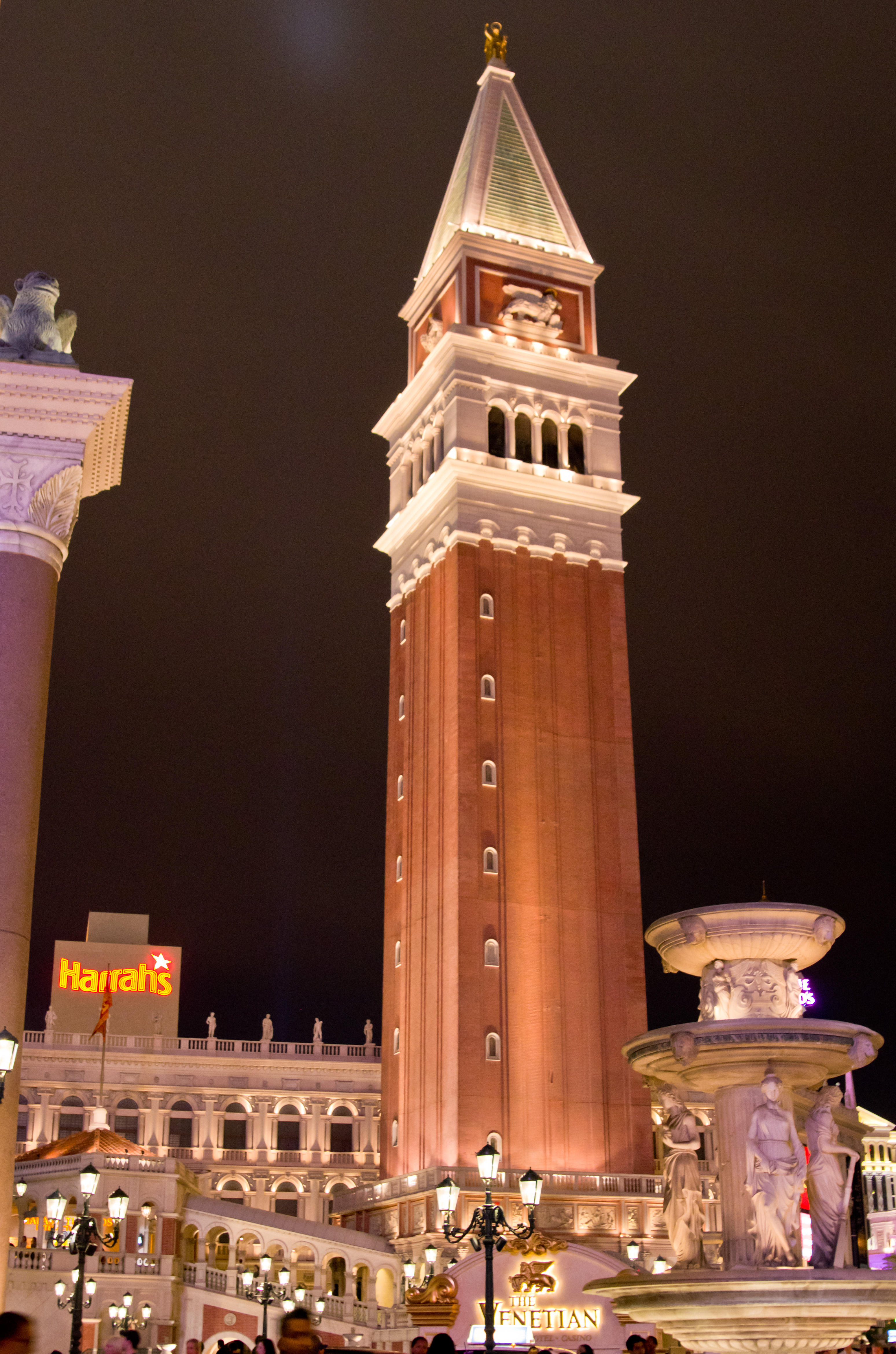 The Venetian hotel (Las Vegas)